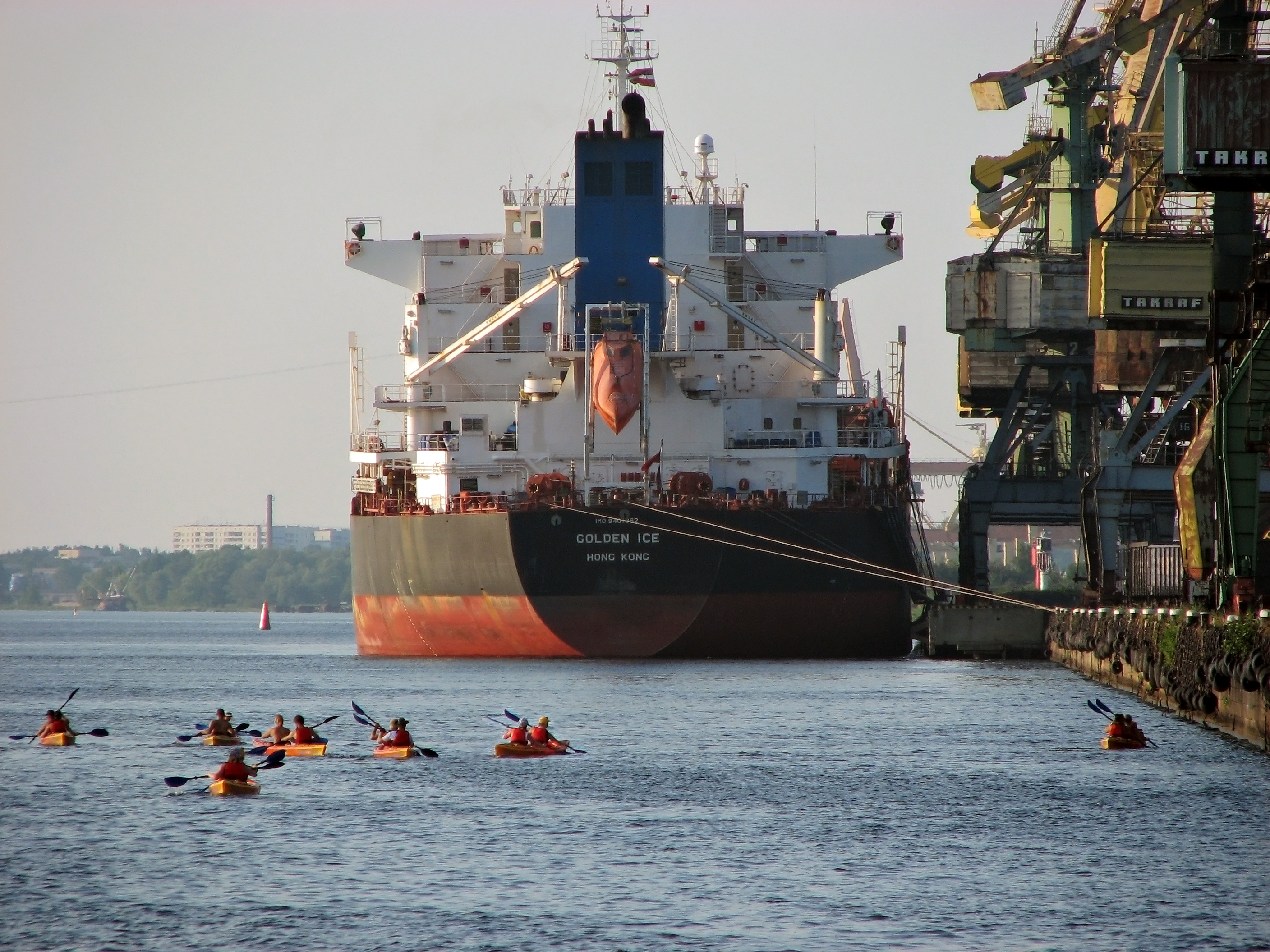 The ship "Golden Ice" in the port of Riga.